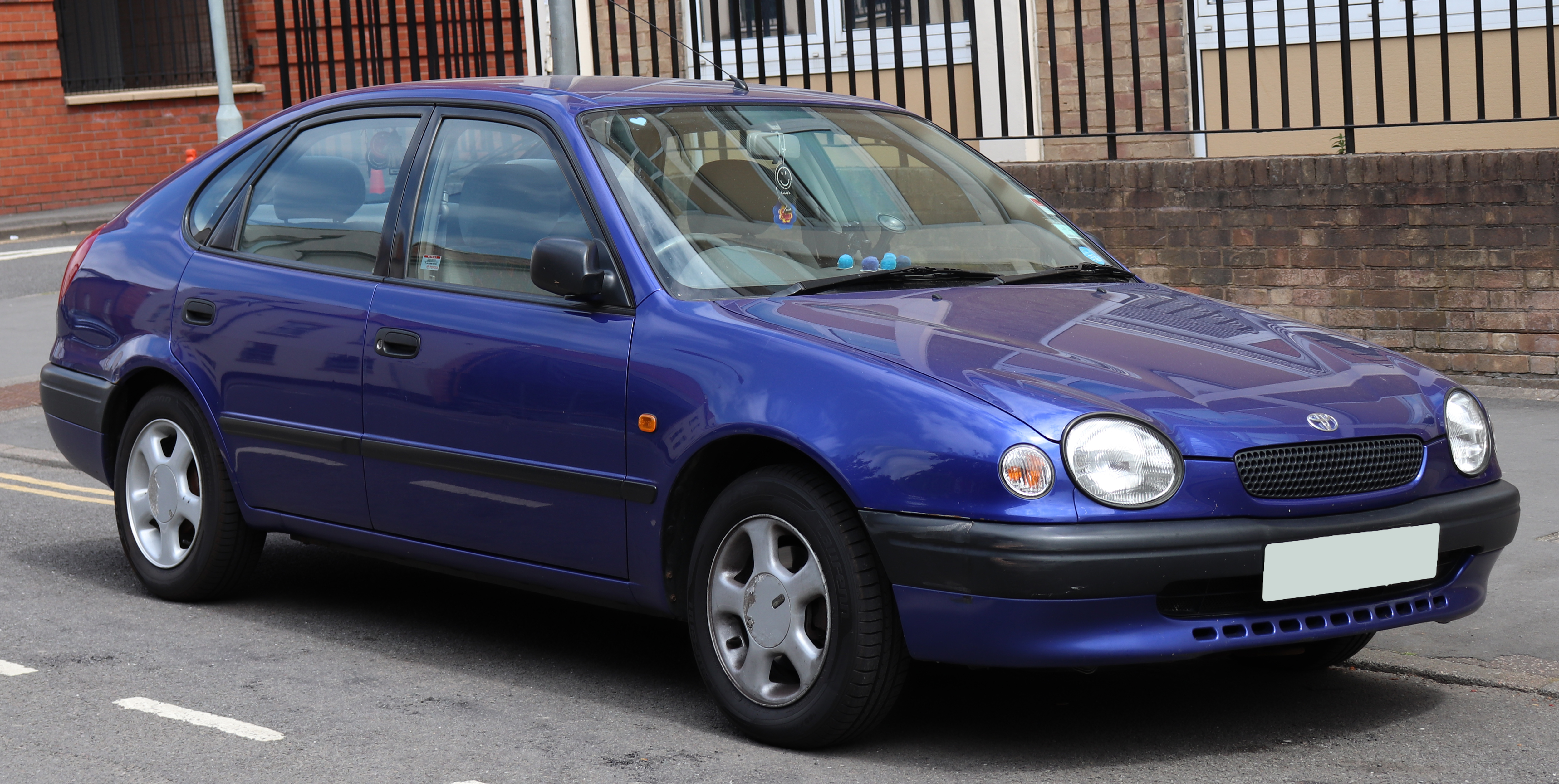 1998 Toyota Corolla Sportif 1.3 Front Taken in Leamington Spa